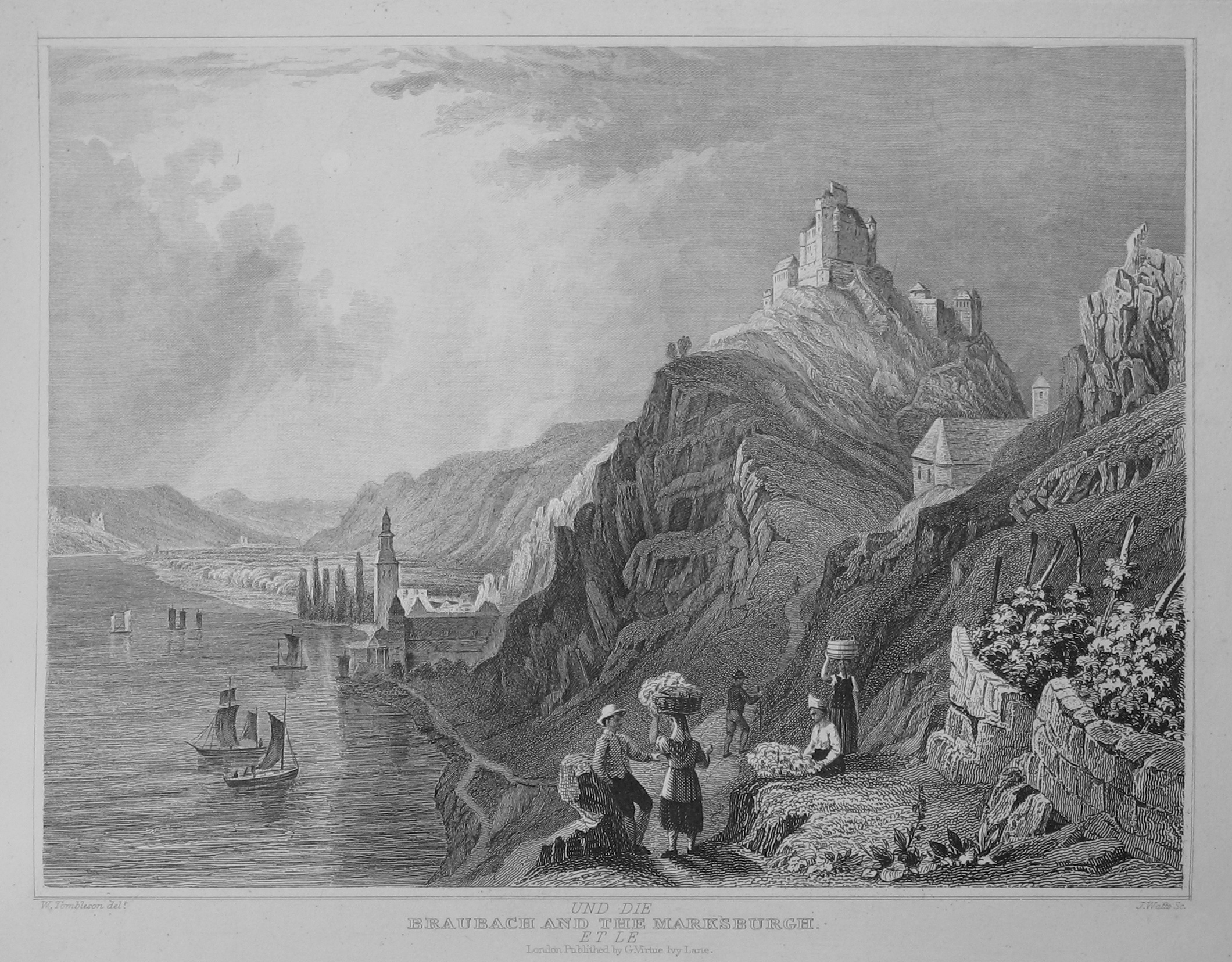 Steel engraving from "Views of the Rhine" by William Tombleson (around 1840): Braubach and the Marksburg